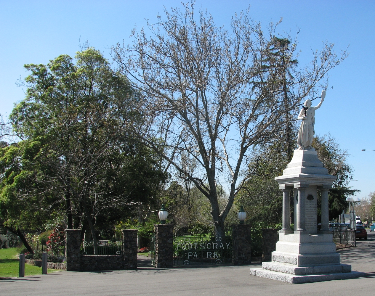 Entrance to Footscray Park, Footscray, Victoria, Australia.